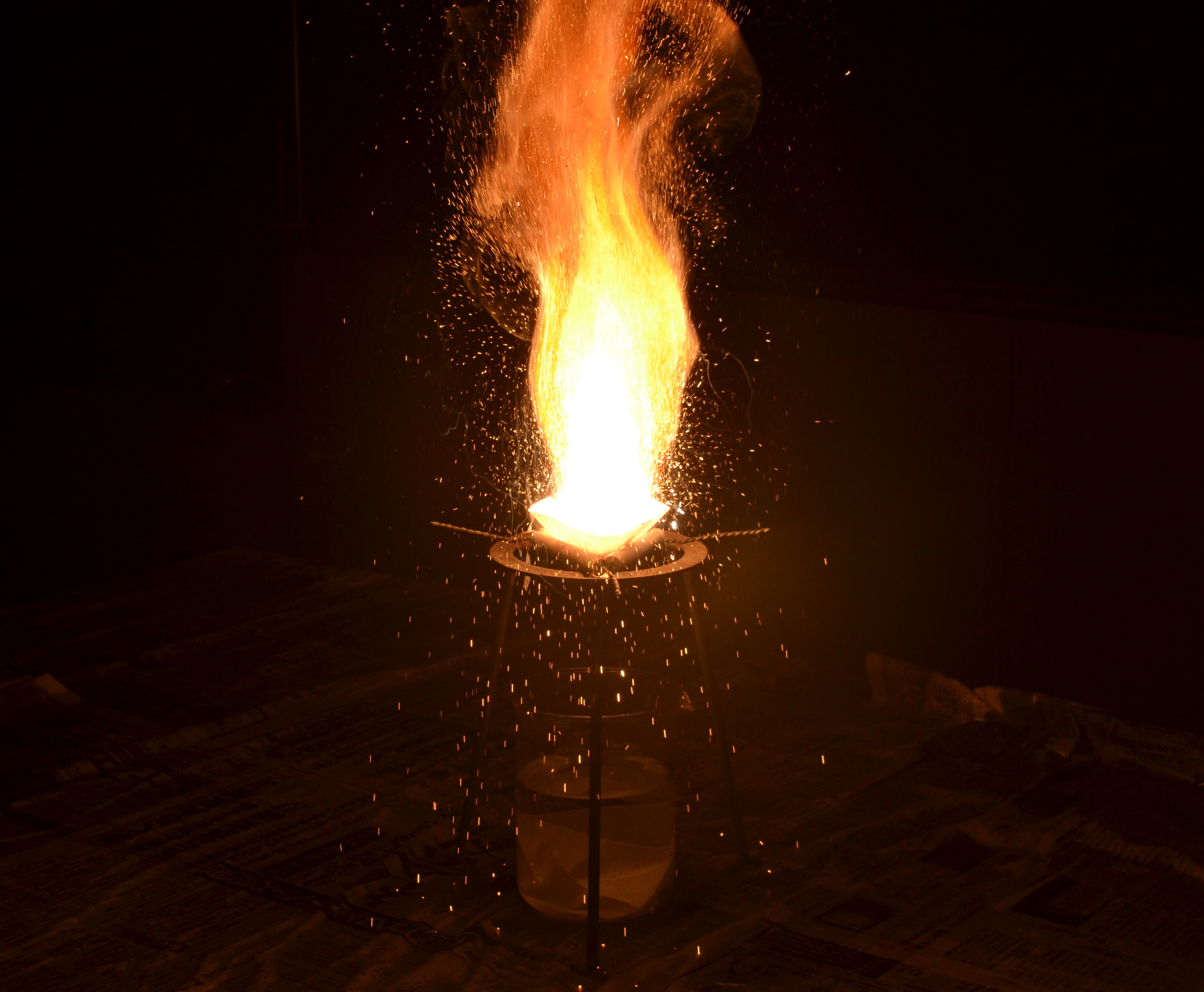 A thermite reaction using iron(III) oxide.